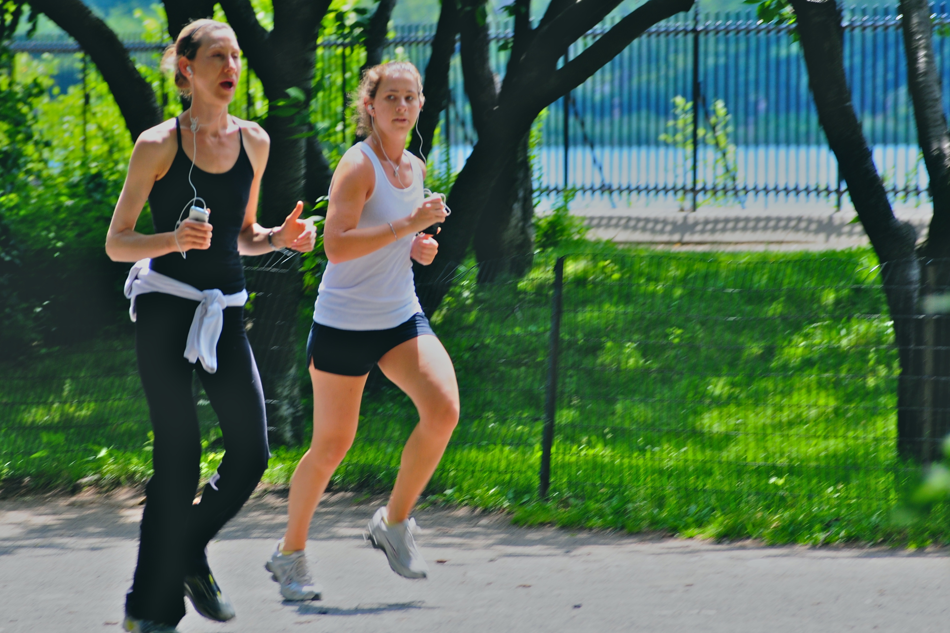 Upper East Side, Central Park - Jun 2008 - 067 These pictures were taken on two successive days when I had doctor appointments on the Upper East Side of NYC, and had the chance to walk along Fifth Avenue, and then through Central Park in order to return to my apartment on the Upper West Side, at Broadway & 96th. I had now reached the west side of the inner roadway that circumnavigates Central Park, and was heading north toward the exit on 96th Street. I was at about 94 Street at this point -- looking east, with the reservoir in the background.